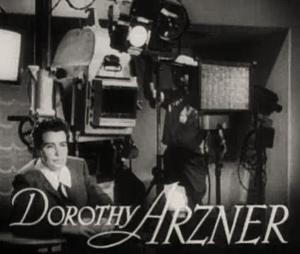 Film director Dorothy Arzner in The Bride Wore Red - trailer (cropped screenshot)